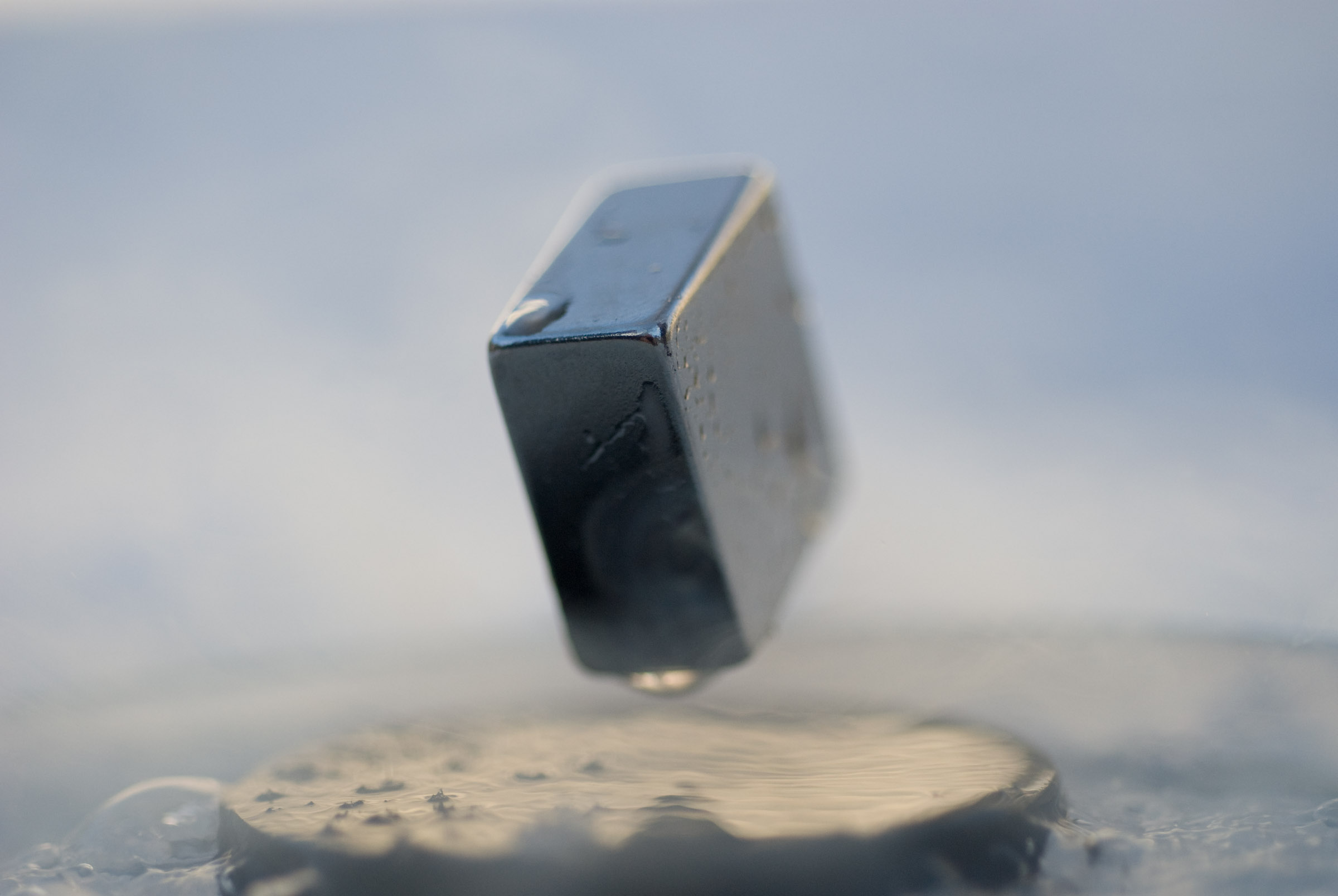 levitation of a magnet on top of a superconductor of cuprate type YBa2Cu3O7 cooled at -196°C.